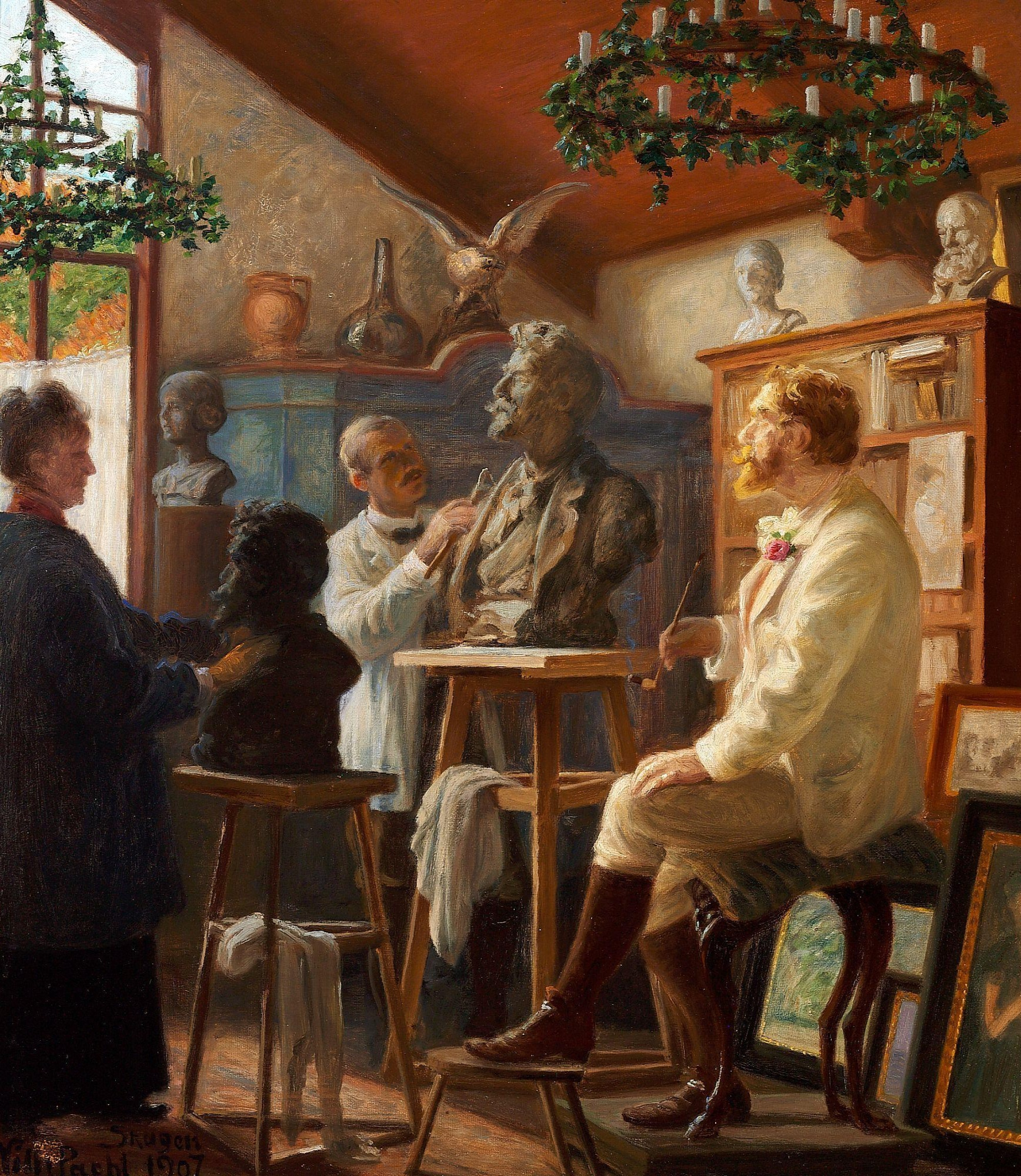 The article on P.S. Krøyer in Biografisk Leksikon mentions that Alma Pfaff and Hans Gyde Petersen modelled him in 1907. The bust by Gyde Petersen, cast in bronze, is now at Statens Museum for Kunst. Pfaff and Petersen are shown here standing in Krøyer's studio modelling the famous painter, who is sitting carelessly smoking his pipe in front of a bookcase. Several paintings are on the floor. A bust of the painter's daughter Vibeke - now in the collection of Skagens Museum is in front of the large cupboard in the corner. On the bookcase behind Krøyer are two busts of fellow Skagen painters Anna Ancher and Michael Ancher.